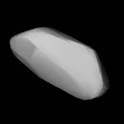 3D convex shape model of 1075 Helina, computed using light curve inversion techniques. J. Hanuš, J. Ďurech, M. Brož, B. D. Warner (June 2011). "A study of asteroid pole-latitude distribution based on an extended set of shape models derived by the lightcurve inversion method". Astronomy and Astrophysics 530: A134. ISSN 0004-6361. arXiv